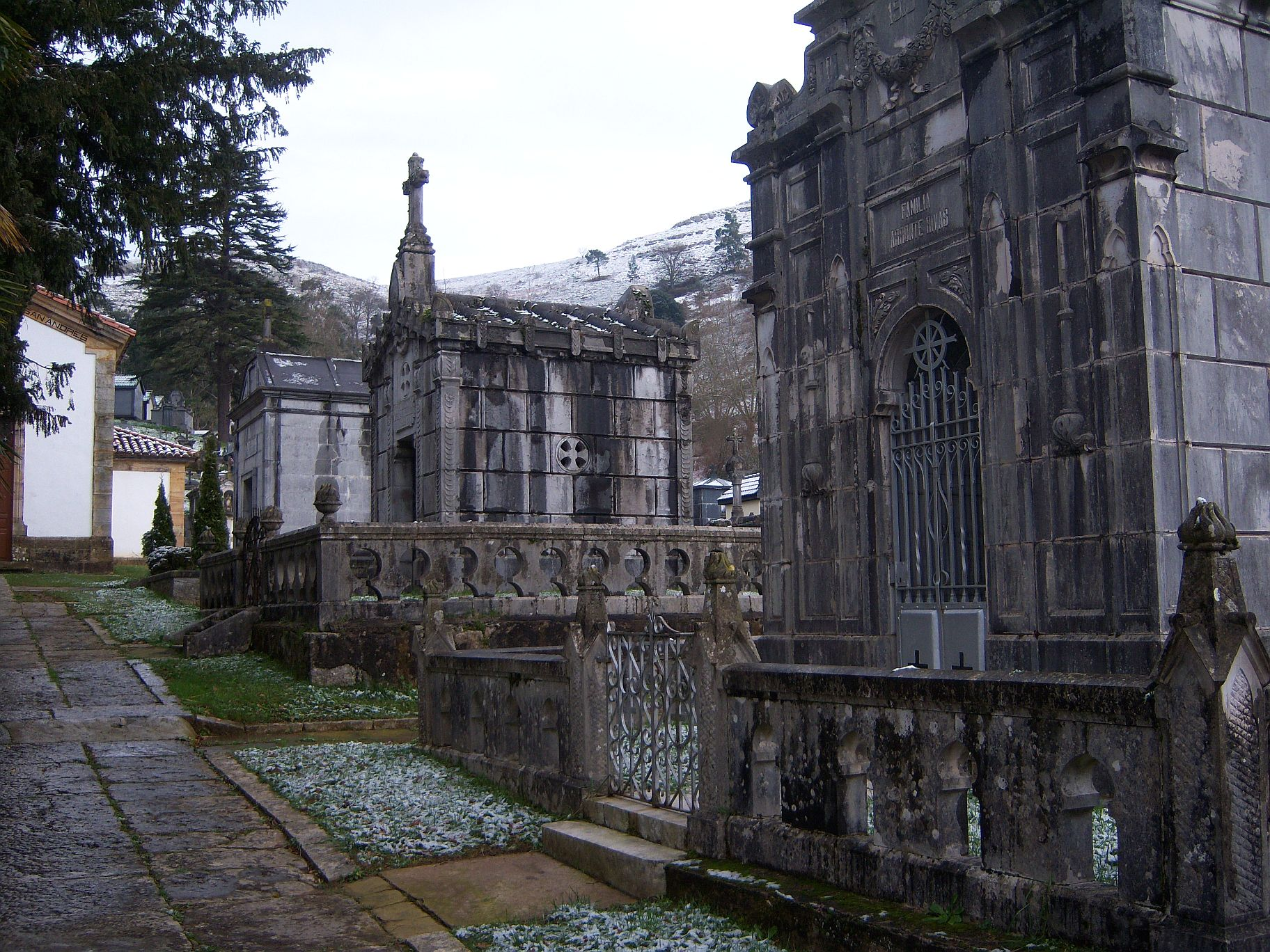 Pantheons of indianos in the cemetery of San Andres in La Cavada (Cantabria, Spain)